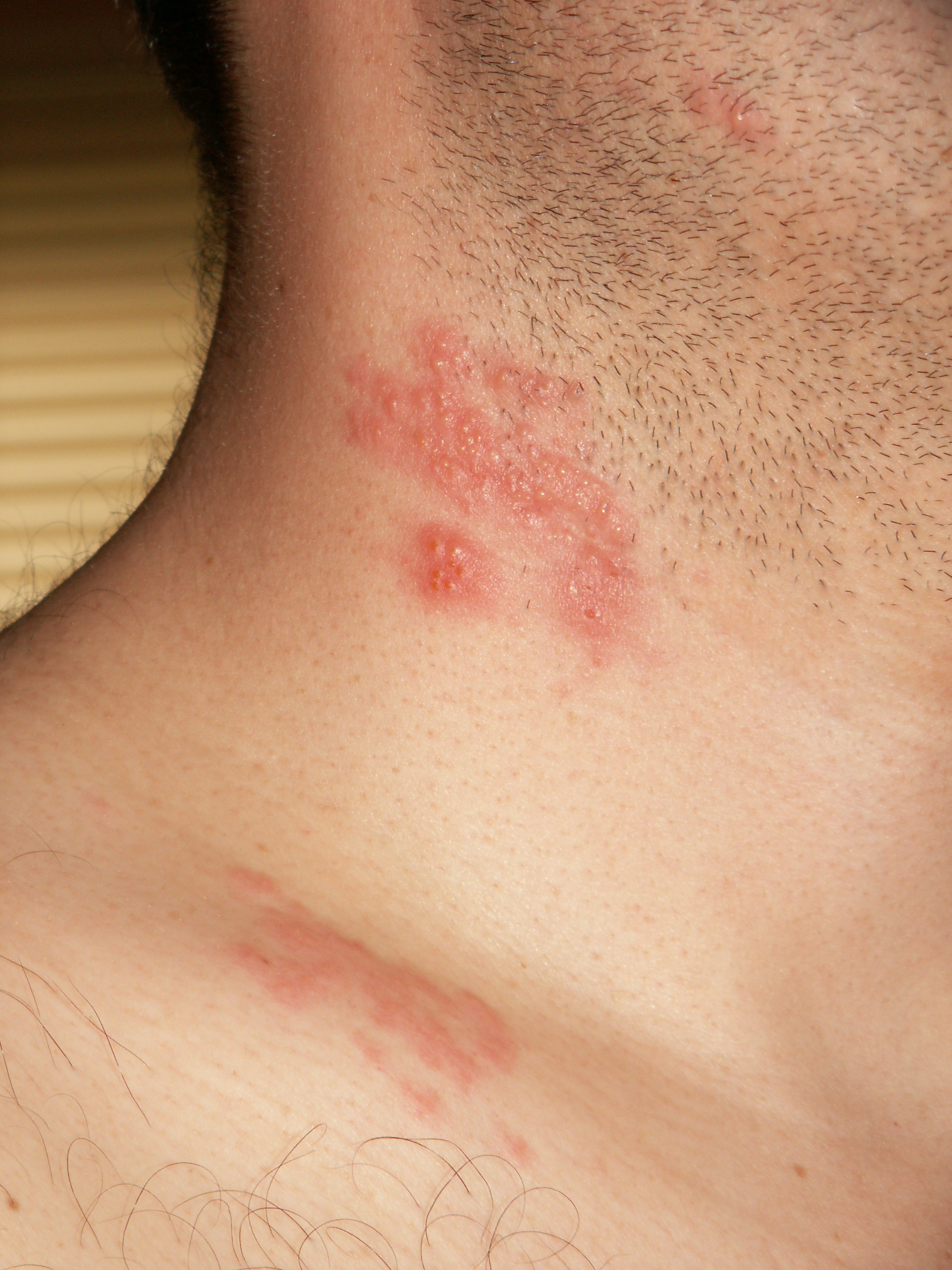 John Pozniak, with zoster blisters on his neck and shoulder. Taken May 5, 2006, in San Jose, California, United States. Copyright © 2006, John Pozniak, and released under the terms of the GNU Free Documentation License ver. 1.2 or any later version.